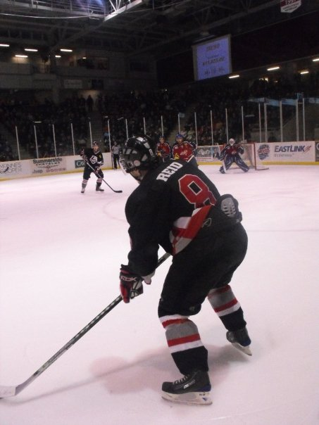 Tyler Cavanaugh Photo